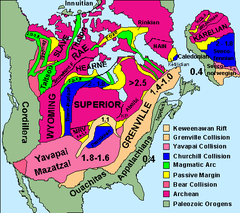 North American cratons and basement rocks. As radiometric ages were determined for the shield-like rocks on the continents which were either exposed at the surface, underlay the flat rocks, or were within the interior of the mountain belts, patterns of age intervals were determined. These old rocks have been called the "basement". This has been interpreted to mean that the continents had somehow grown by development of rock assemblages with these characteristic age parameters. The expanding continental nuclei are part of the "craton" which consist of both exposed and buried basement rocks.